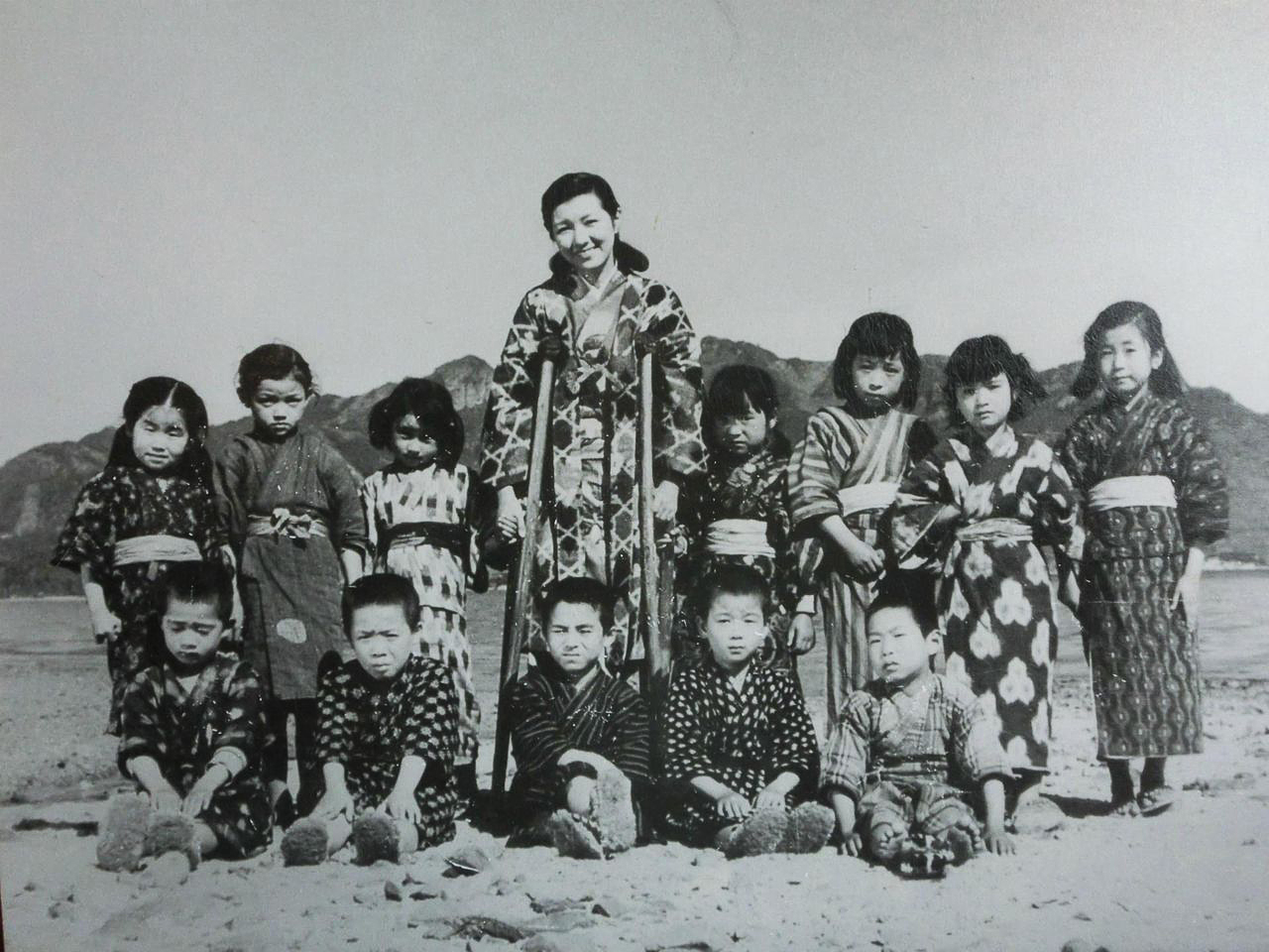 Hideko Takamine (1924–) and the 12 child actors in the motion picture Twenty-Four Eyes (1954)